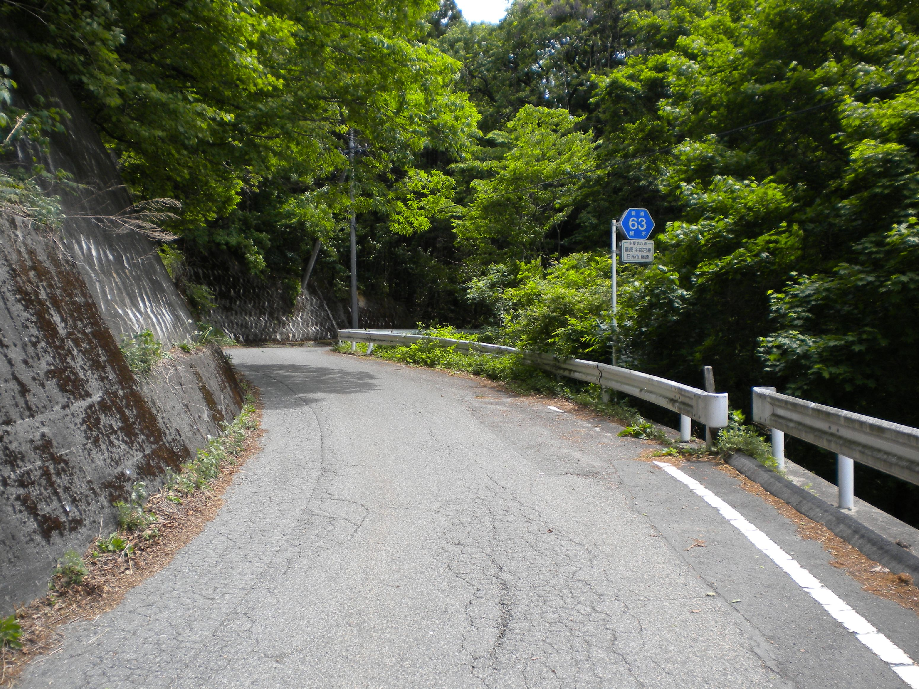 The Tochigi Prefectural Road Route 63 in Fujihara, Nikko City